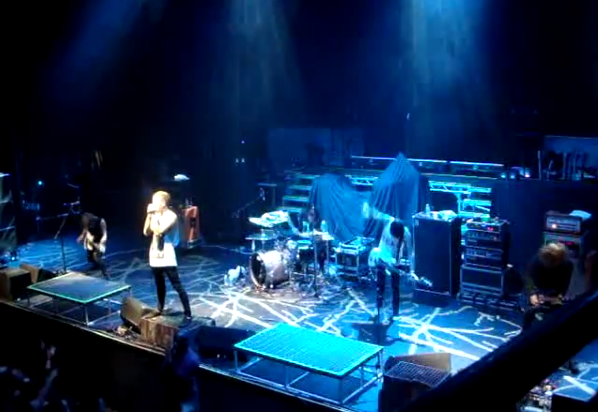 rock band coldrain live in Paris on 3 February 2014